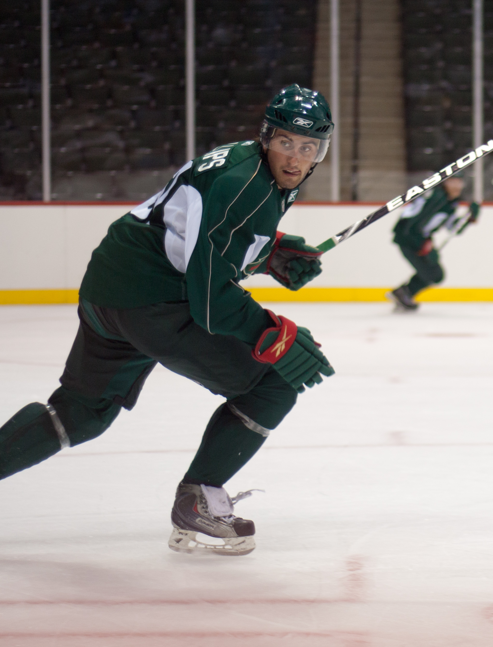 Zack Phillips skating in an open scrimmage during the 2011 Minnesota Wild Development Camp.